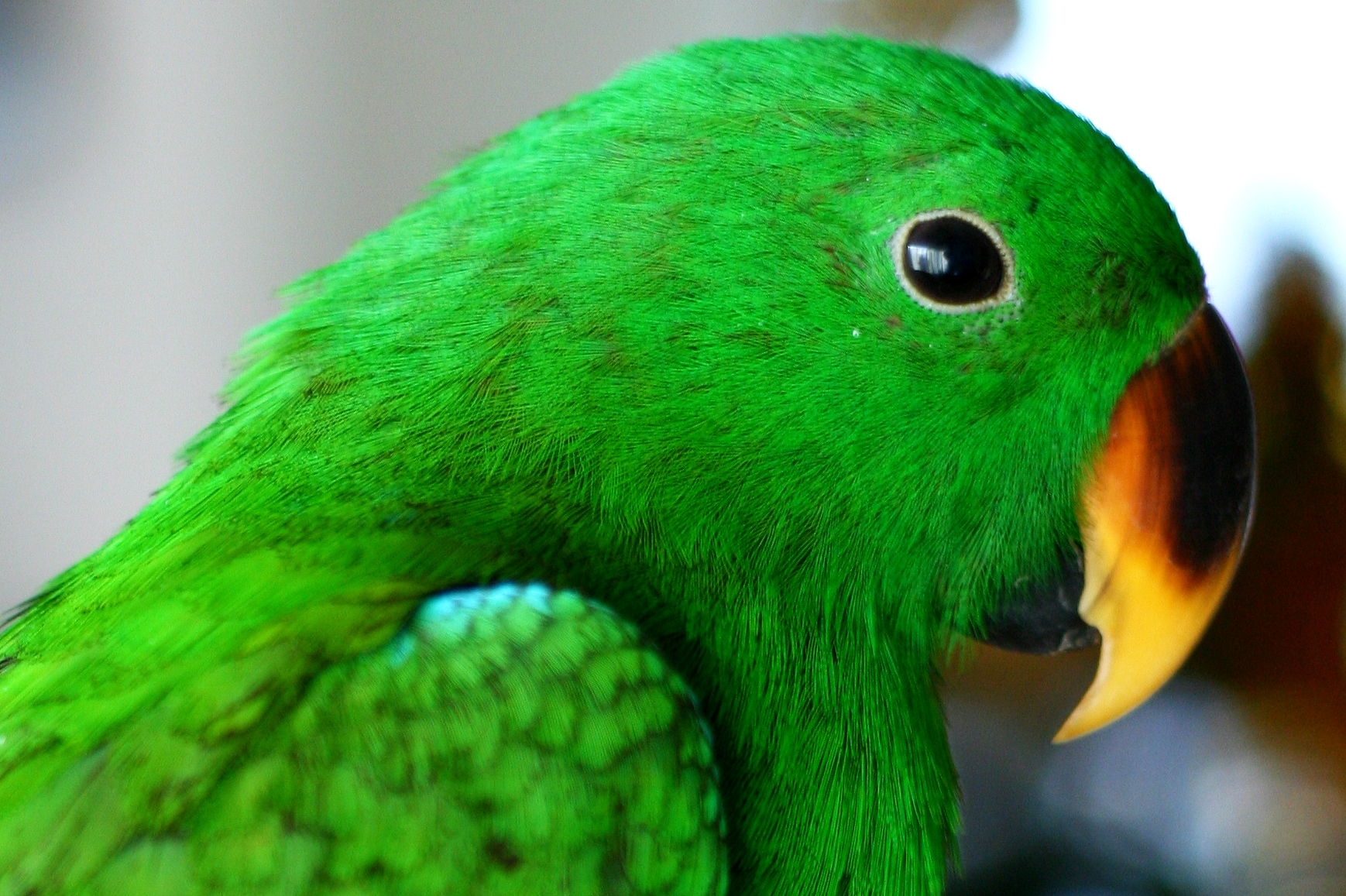 Eclectus Parrot. Close-up showing head of the a pet male juvenile parrot. The base of its upper beak is partly a brown colour, unlike the all yellow colour of the adult's upper beak. Also, its iris shows the dark brown/black colour of the juvenile.